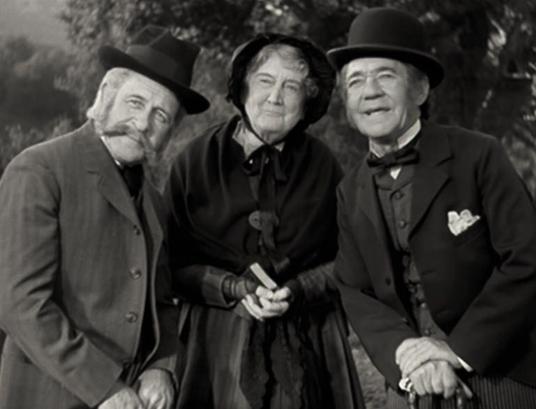 Tempe Pigott (center) in Little Lord Fauntleroy - cropped screenshot